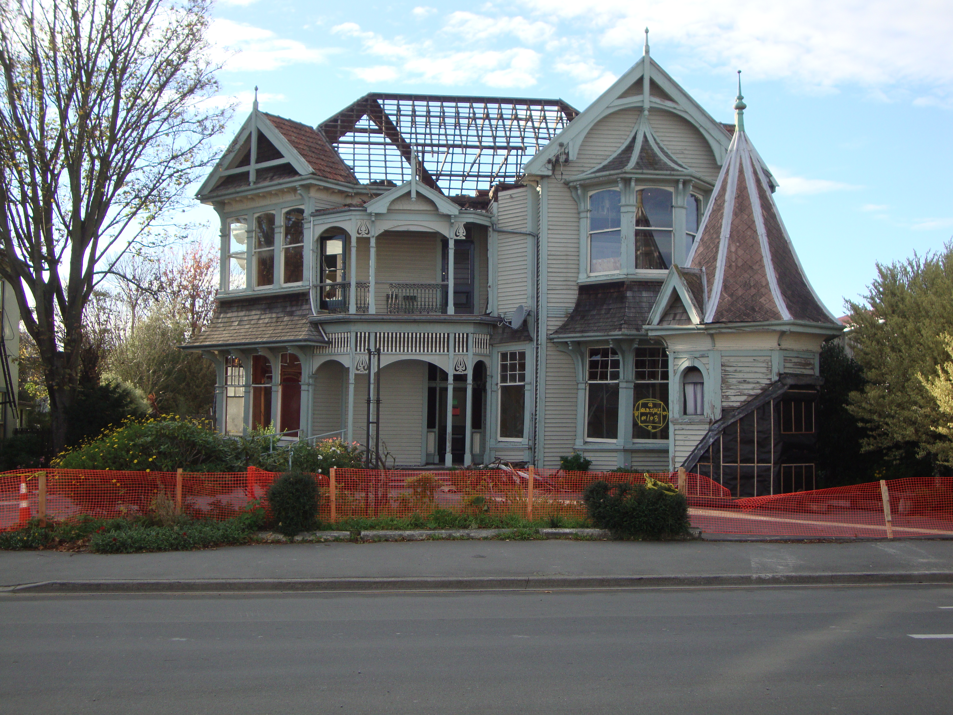 Wharetiki with significant damage caused by the 2011 Christchurch earthquake.